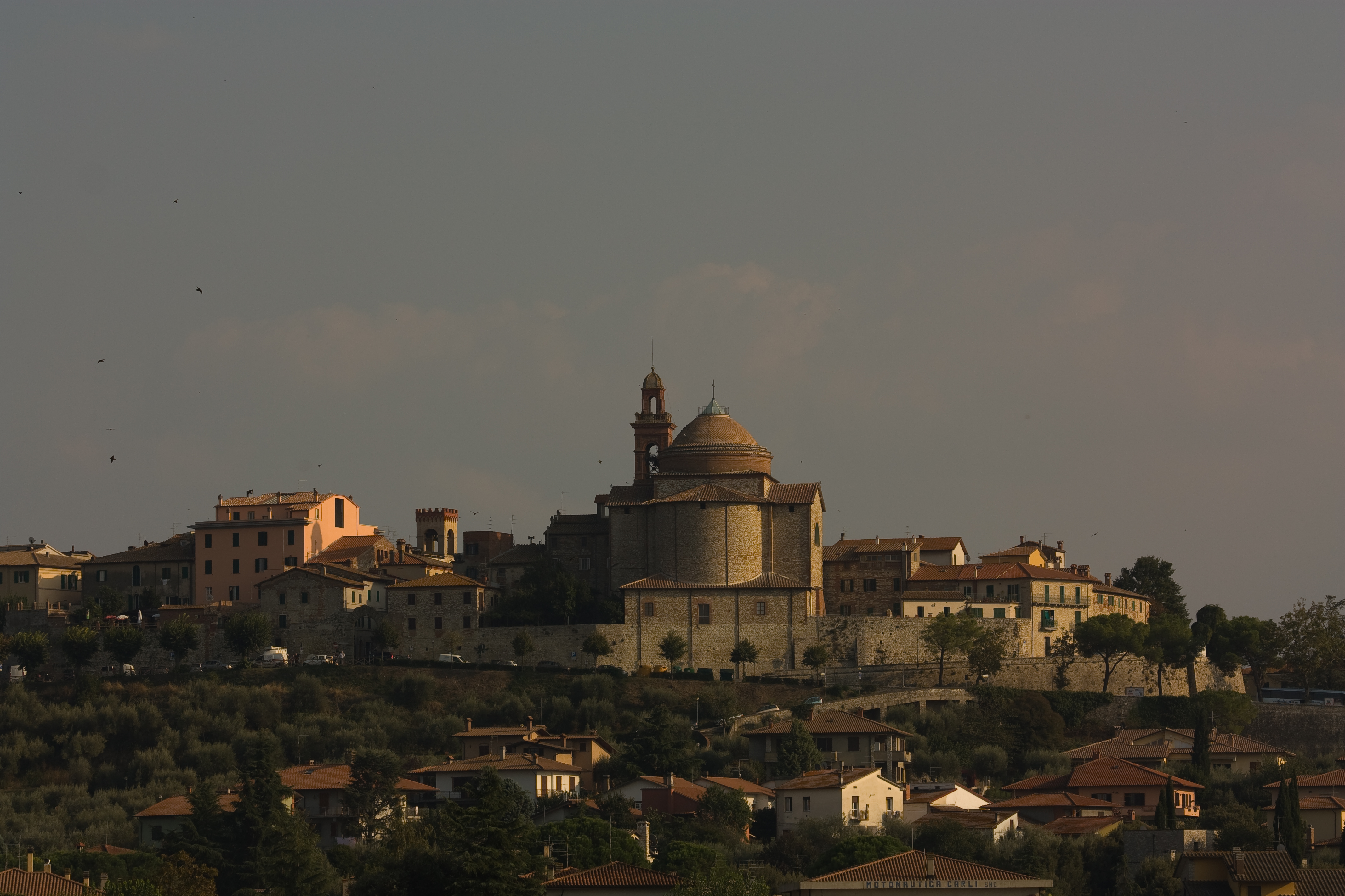 Castiglione del Lago, Umbria, Italy